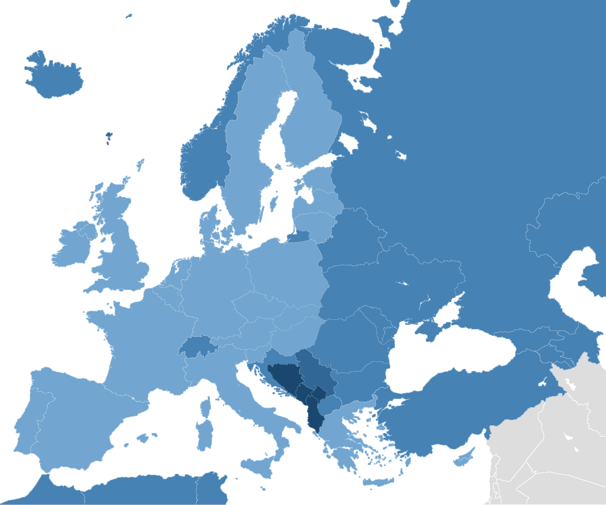 Shows countries of European Union/Europe agreements for football practice at UEFA territories on a world map